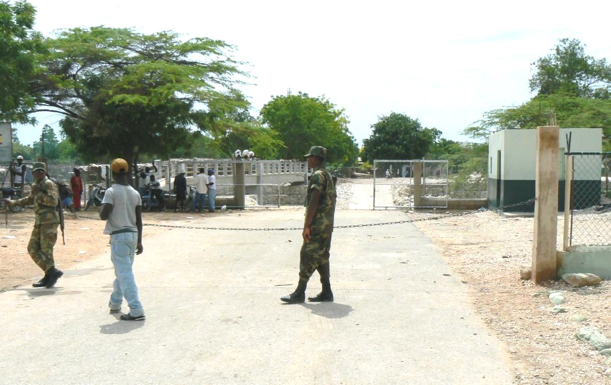 Border between Haiti and Dominican Republic, at Pedernales, D.R. (viewed from D.R. side)